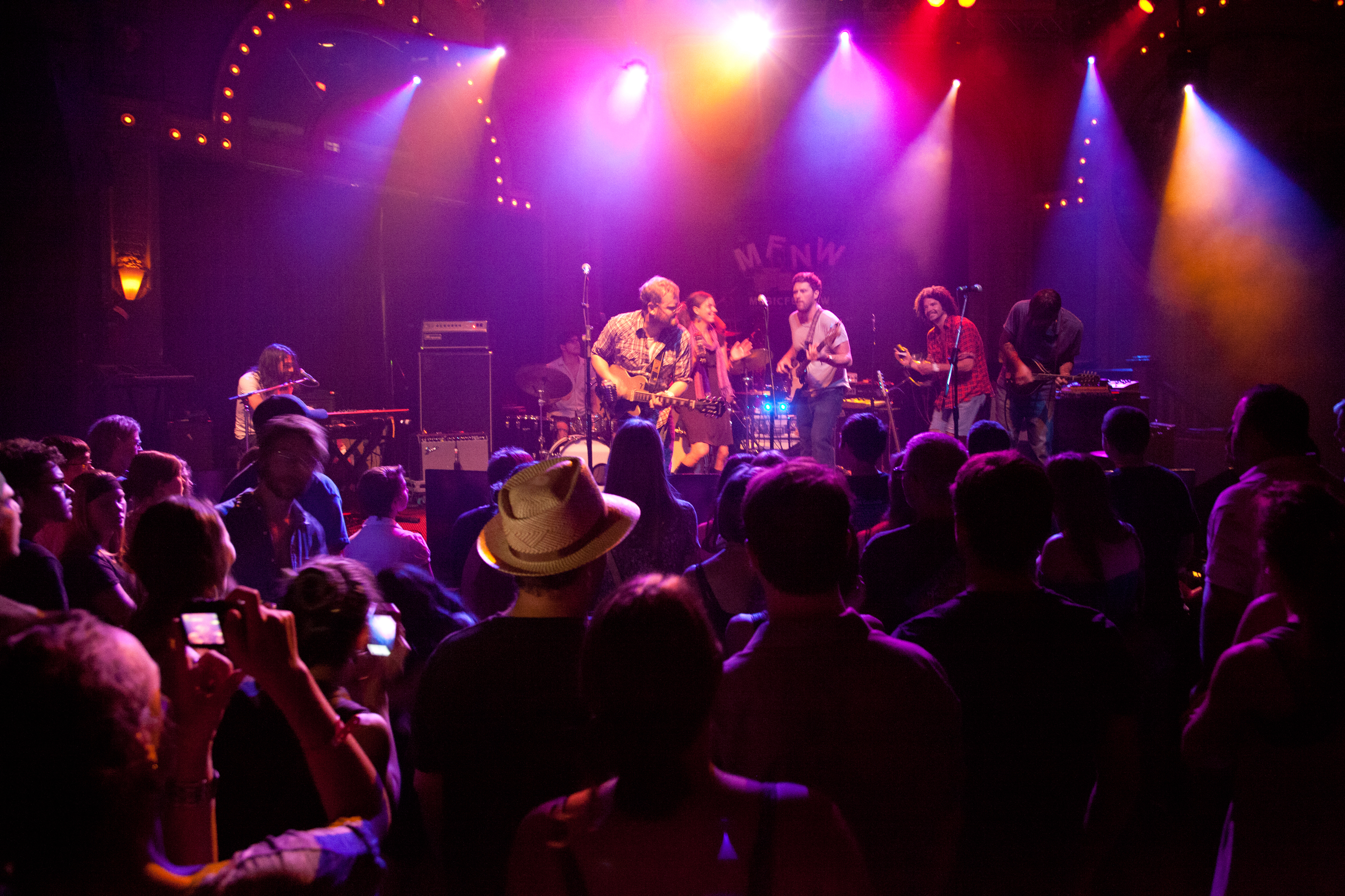 Weinland performing at the Crystal Ballroom in Portland, Oregon